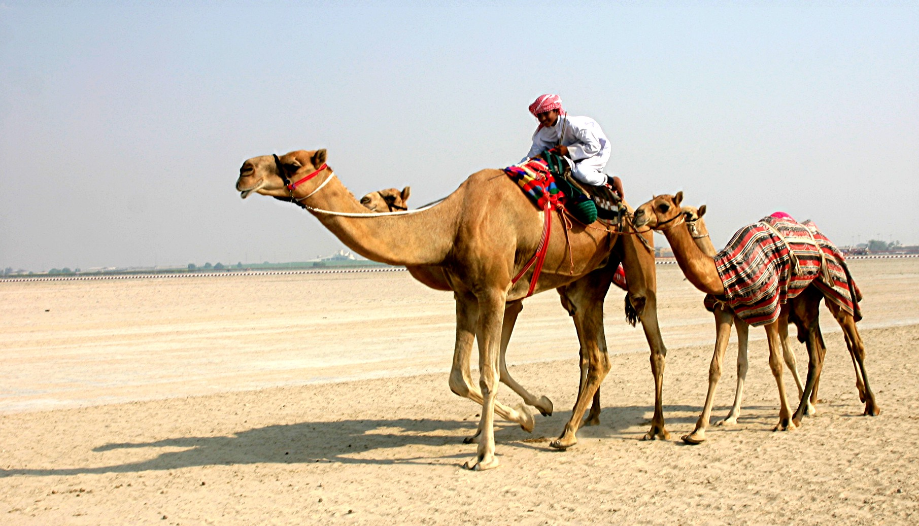 Camels are crazy looking animals